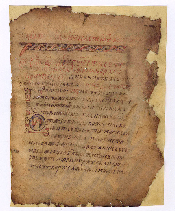 Fragmented page of the 10th/11th-century Enina Apostle, an Old Bulgarian Cyrillic copy of the Acts of the Apostles